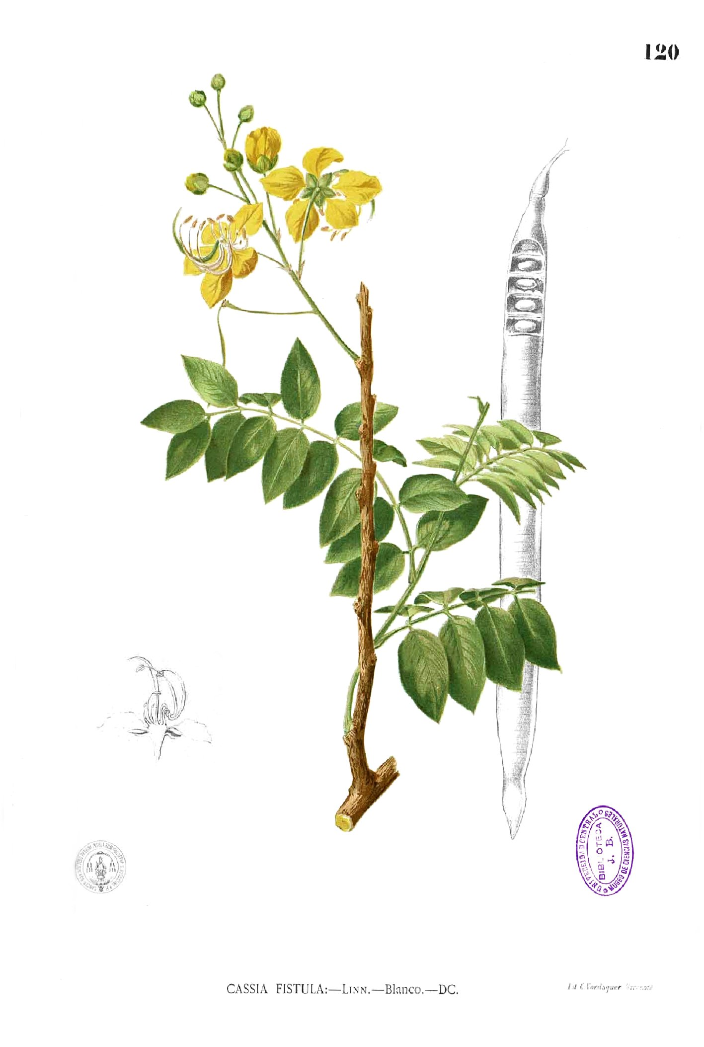 Cassia fistula, Plate from book